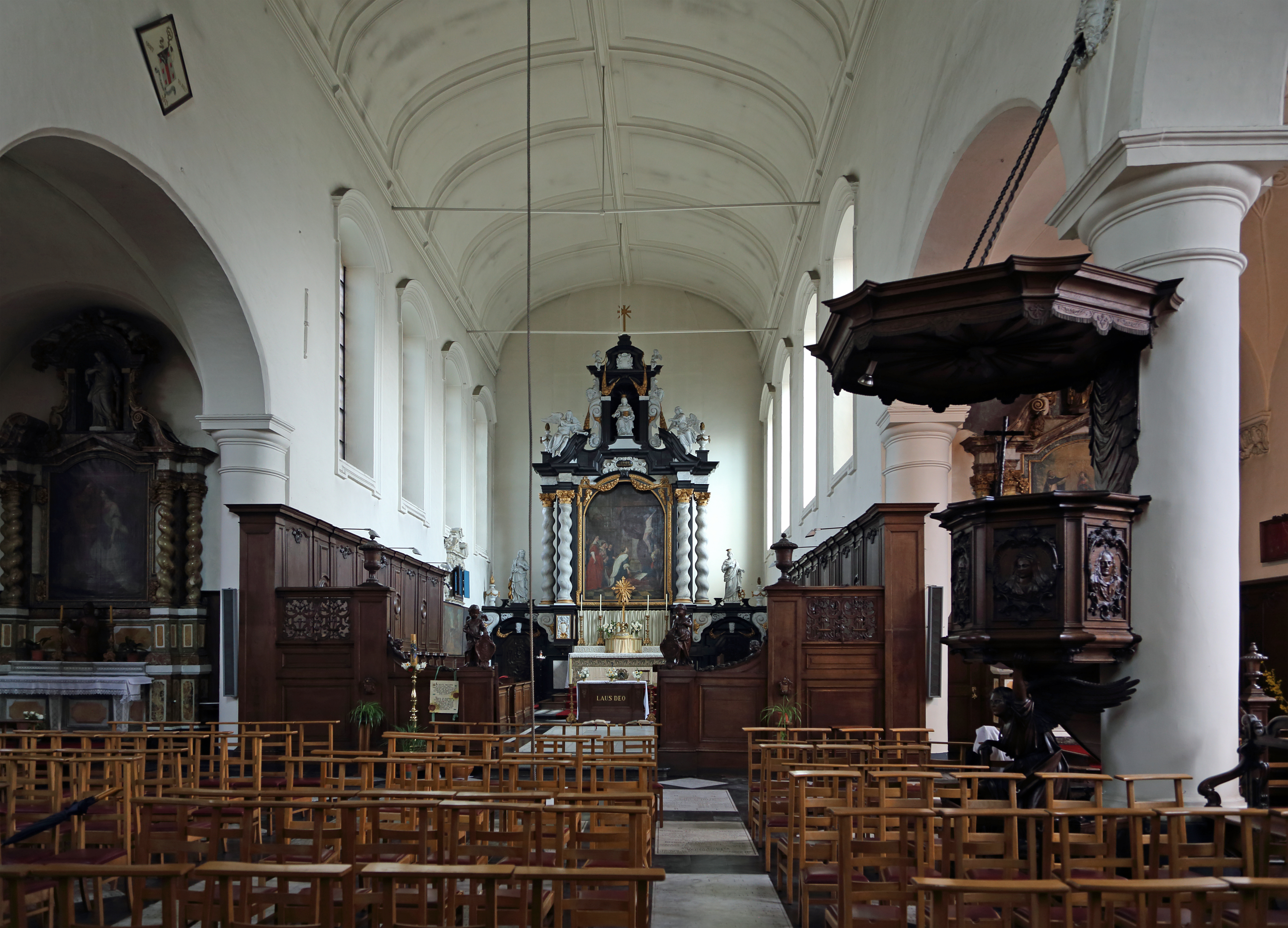 Bruges (Belgium): interior of St Elisabeth's church (Beguinage church)